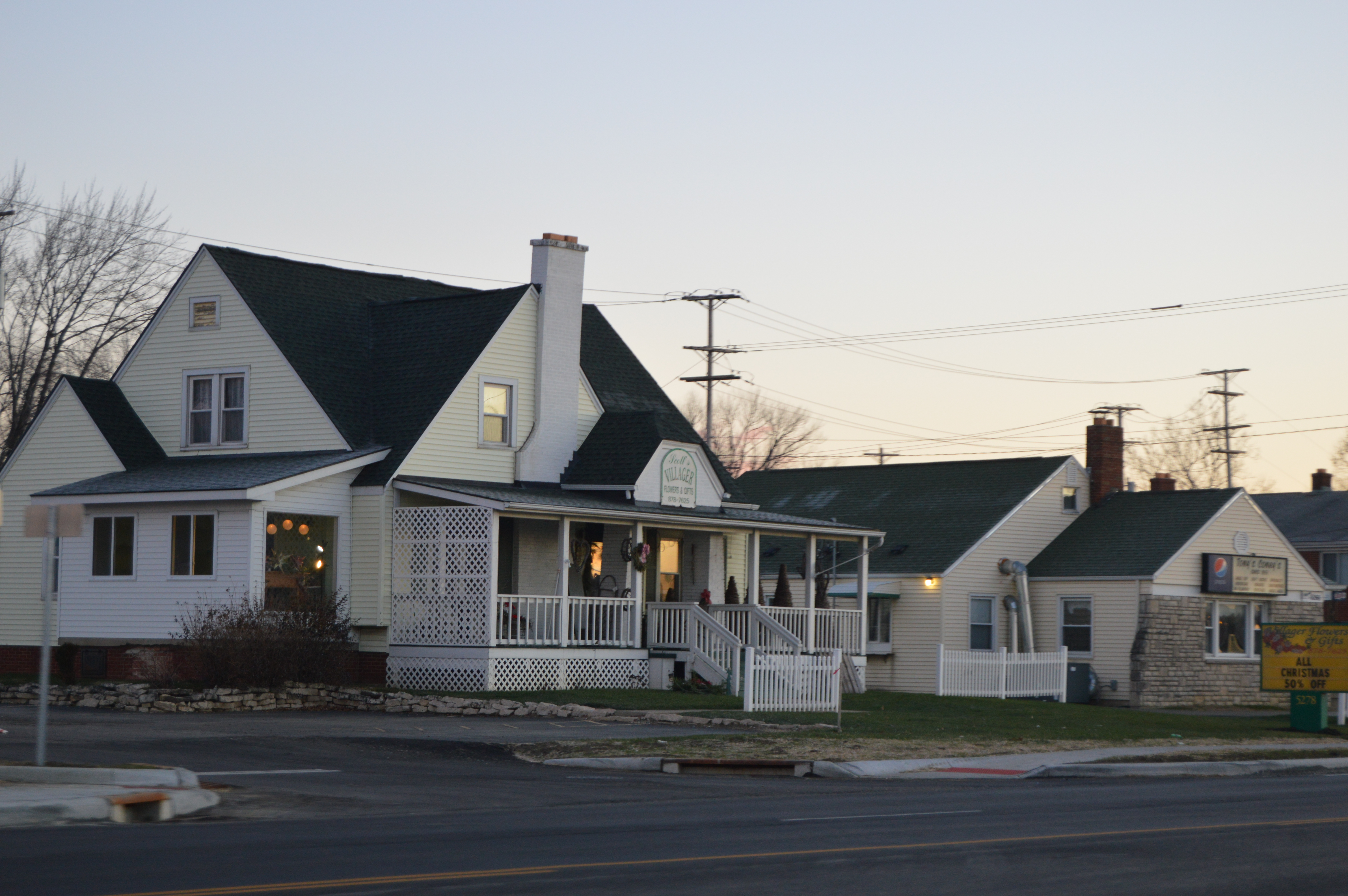 Businesses on the northern side of Broad Street (U.S. Route 40) in New Rome, Ohio, United States.